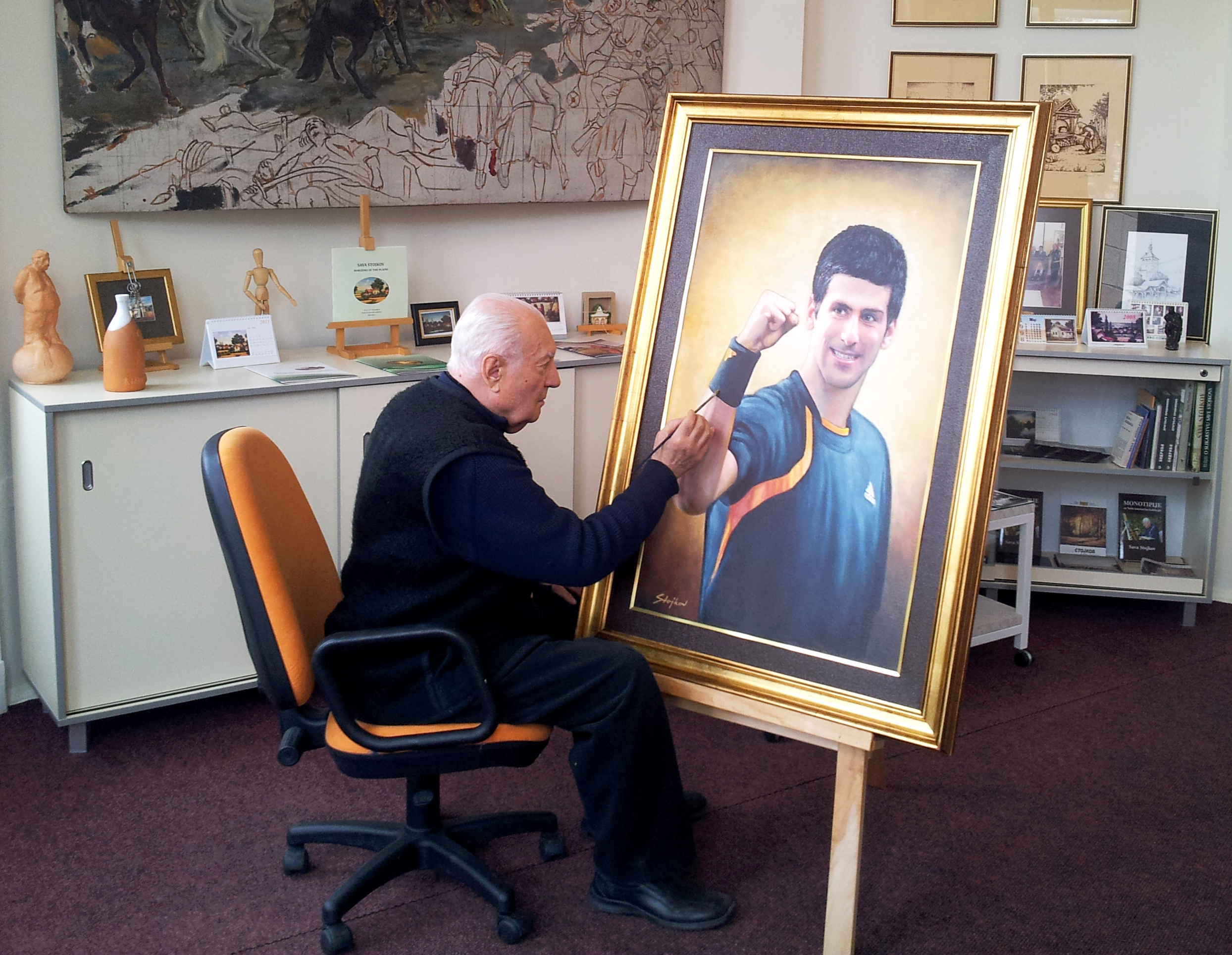 Сава Стојков завршава портрет Новака Ђоковића у свом атељеу у Препарандији